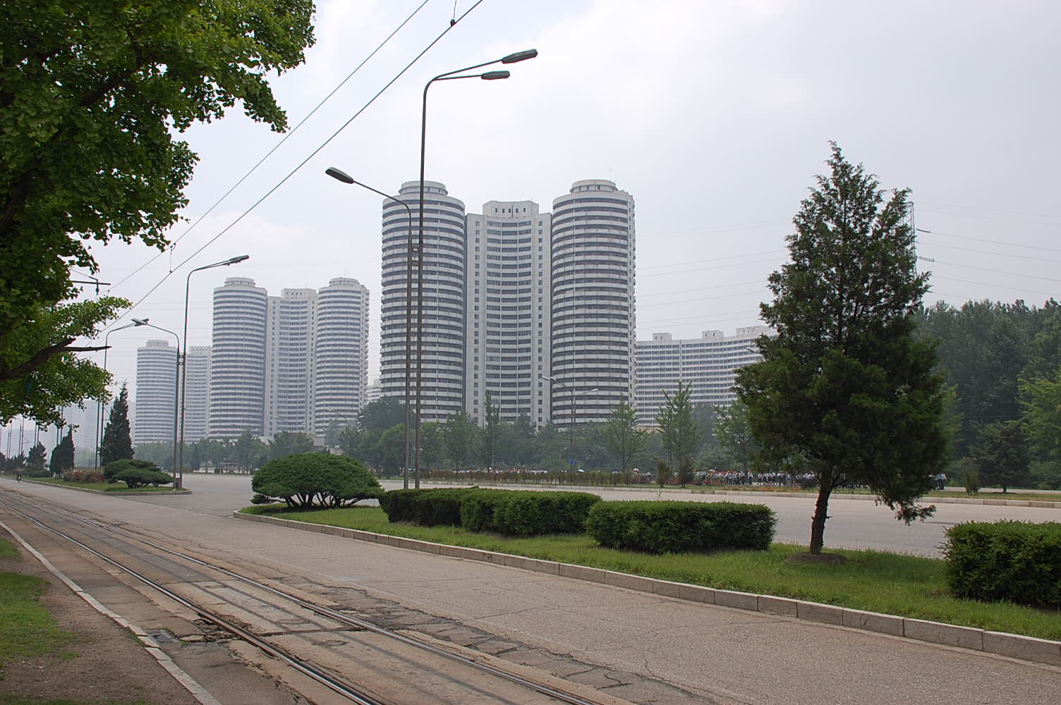 Kwangbok Street in Mangyongdae-guyok district - Pyongyang. Trip to North Korea in June, 2008